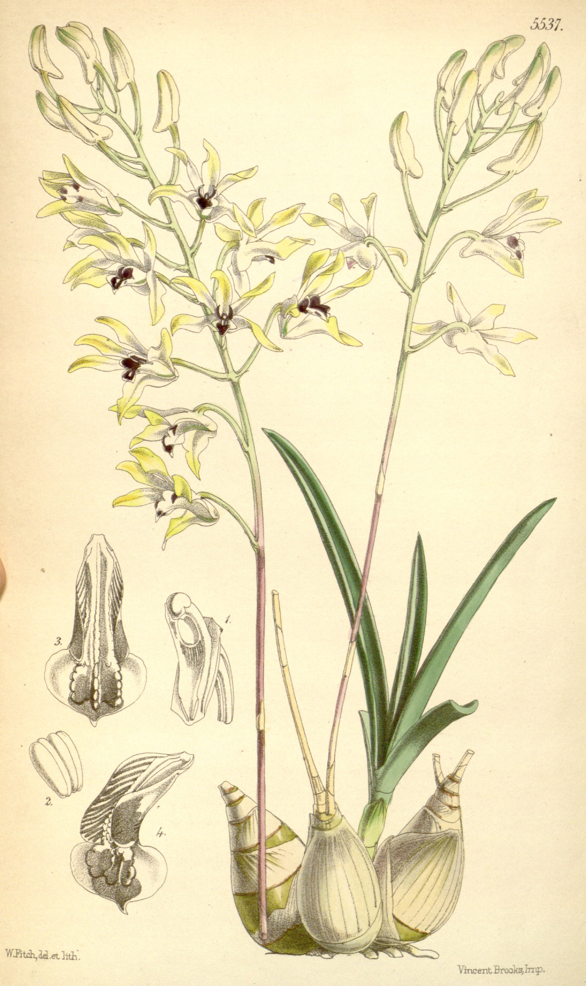 Illustration of Dendrobium canaliculatum var. canaliculatum (as syn. Dendrobium tattonianum)